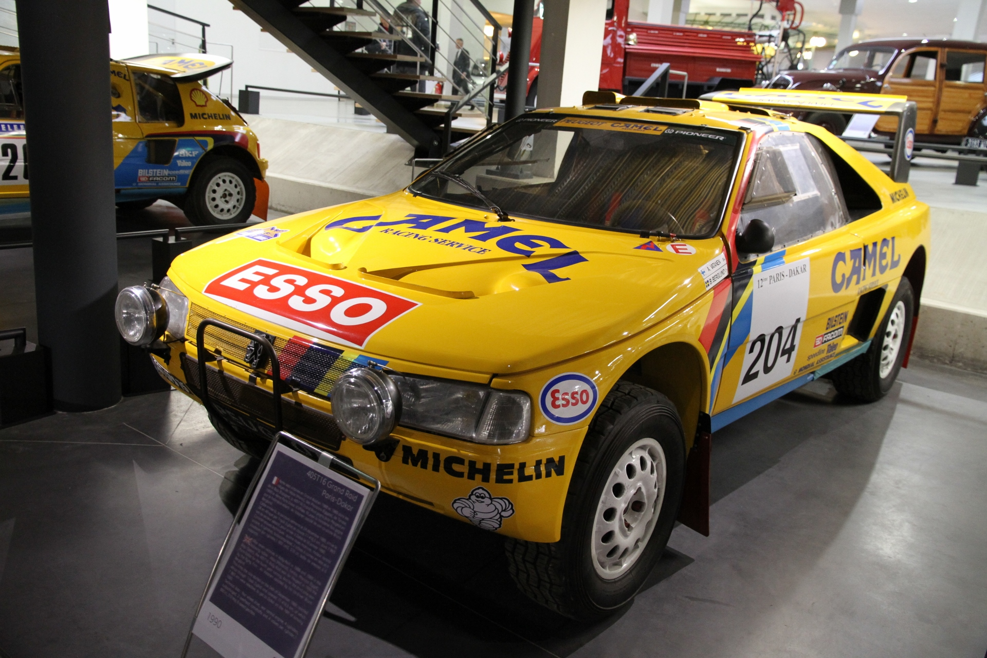 The 1990 Peugeot 405 T16 Dakar Rally version at Musée de l'Aventure Peugeot.